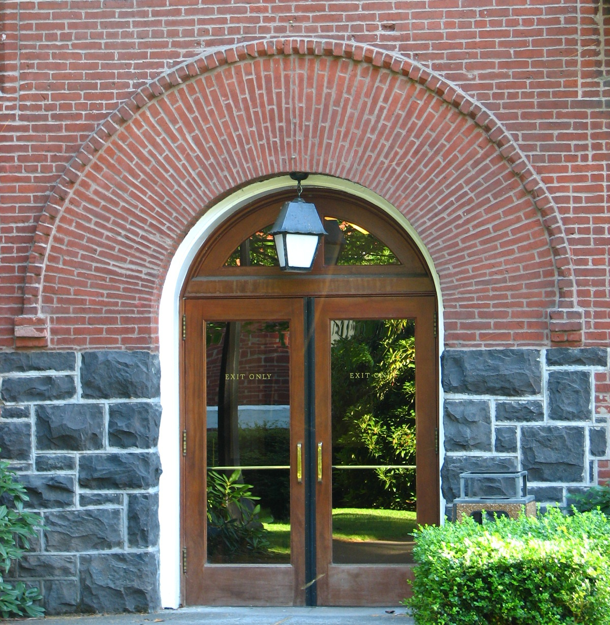 East entrance to Waldschmidt Hall at the University of Portland, Oregon, United States. The building (built 1891) is listed on the US National Register of Historic Places under its historic name of West Hall.